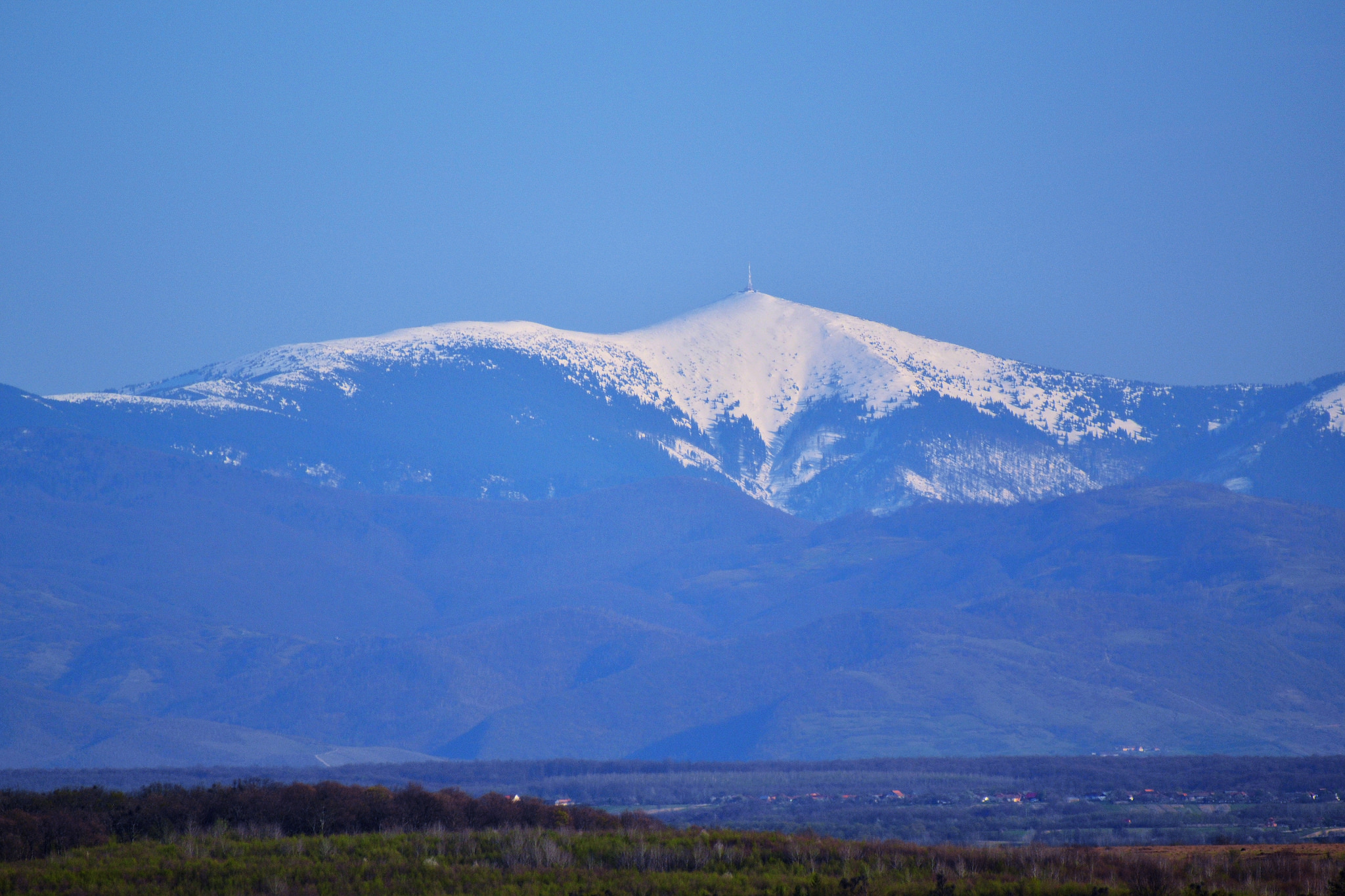 Bihor Peak (also known as Cucurbăta Mare), the tallest mountain in Apuseni Mountains, seen from 50 kilometers, from the village of Josani, commune of Căbeşti, county of Bihor, Crişana, Transylvania, Romania.